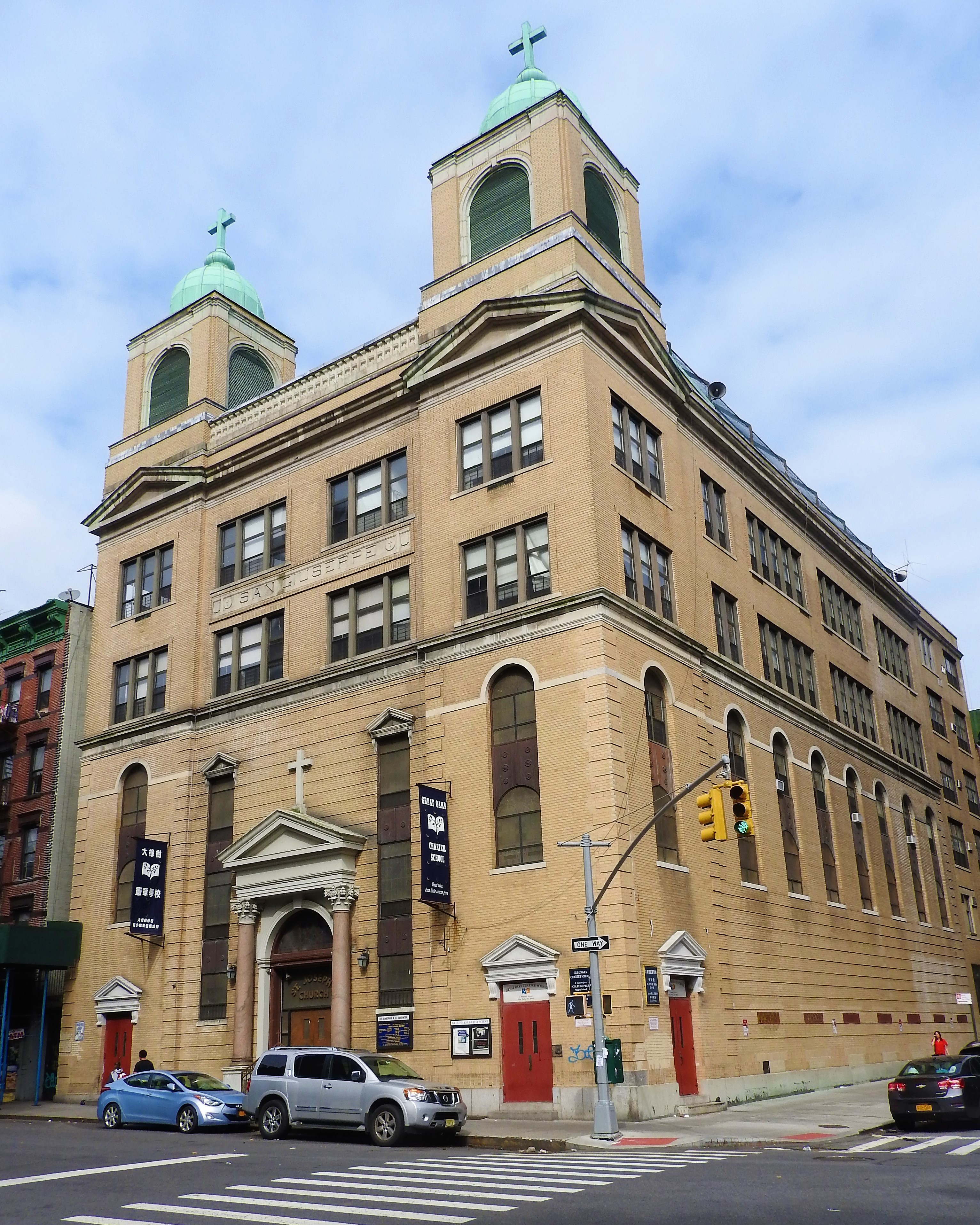 Looking east at 1 Monroe Street, former Catholic parochial school, now a charter school.